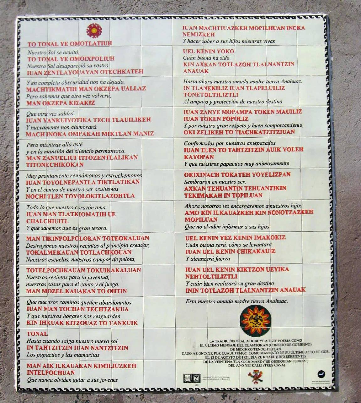 Tile mosaic with what is considered to be Cuauhtemoc's last report to the Aztec governing council and last act as chief. Written in Nahuatl and Spanish.